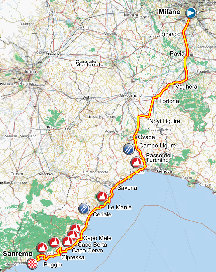 Route of Milano-Sanremo 2011